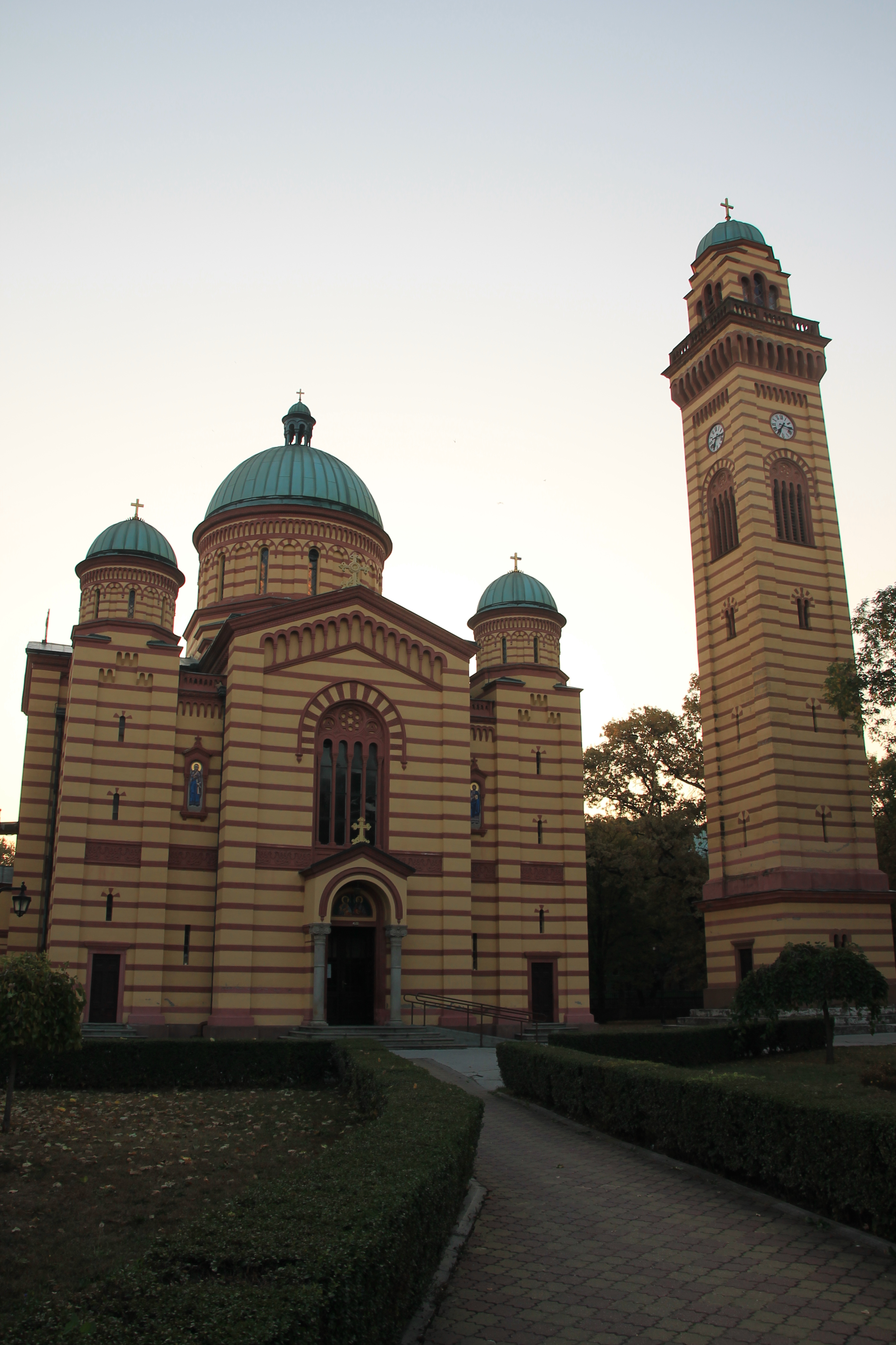 Churches in the Eparchy of Šumadija